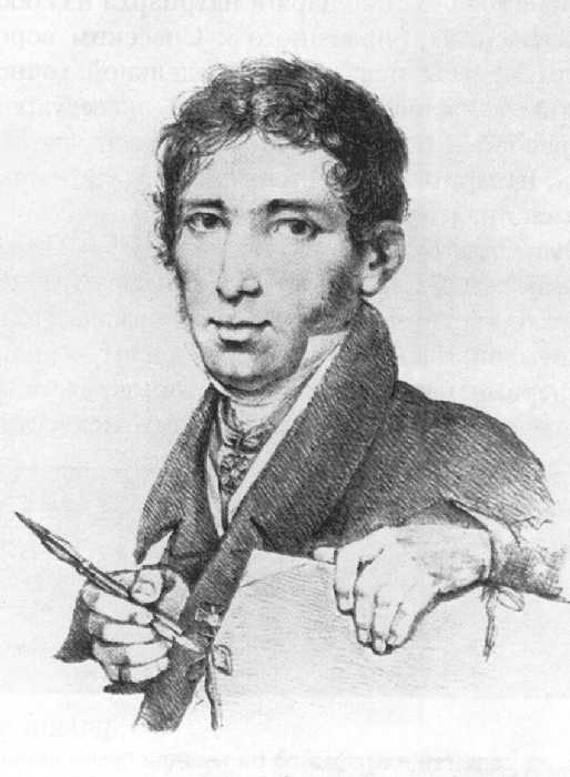 bazil_shebuev